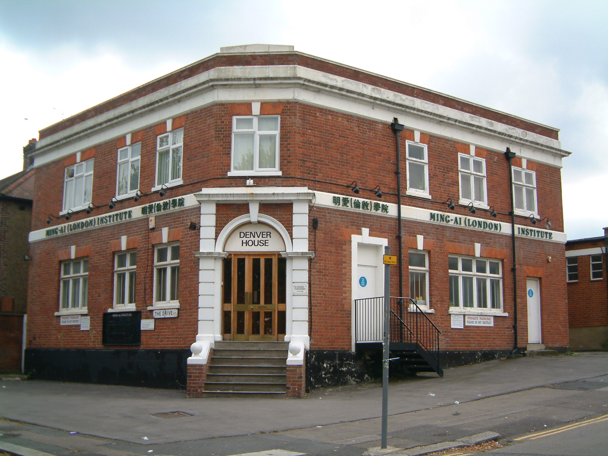 Denver House Bounds Green home of The Ming-Ai (London) Institute, 1 Cline Road, London, N11 2LX